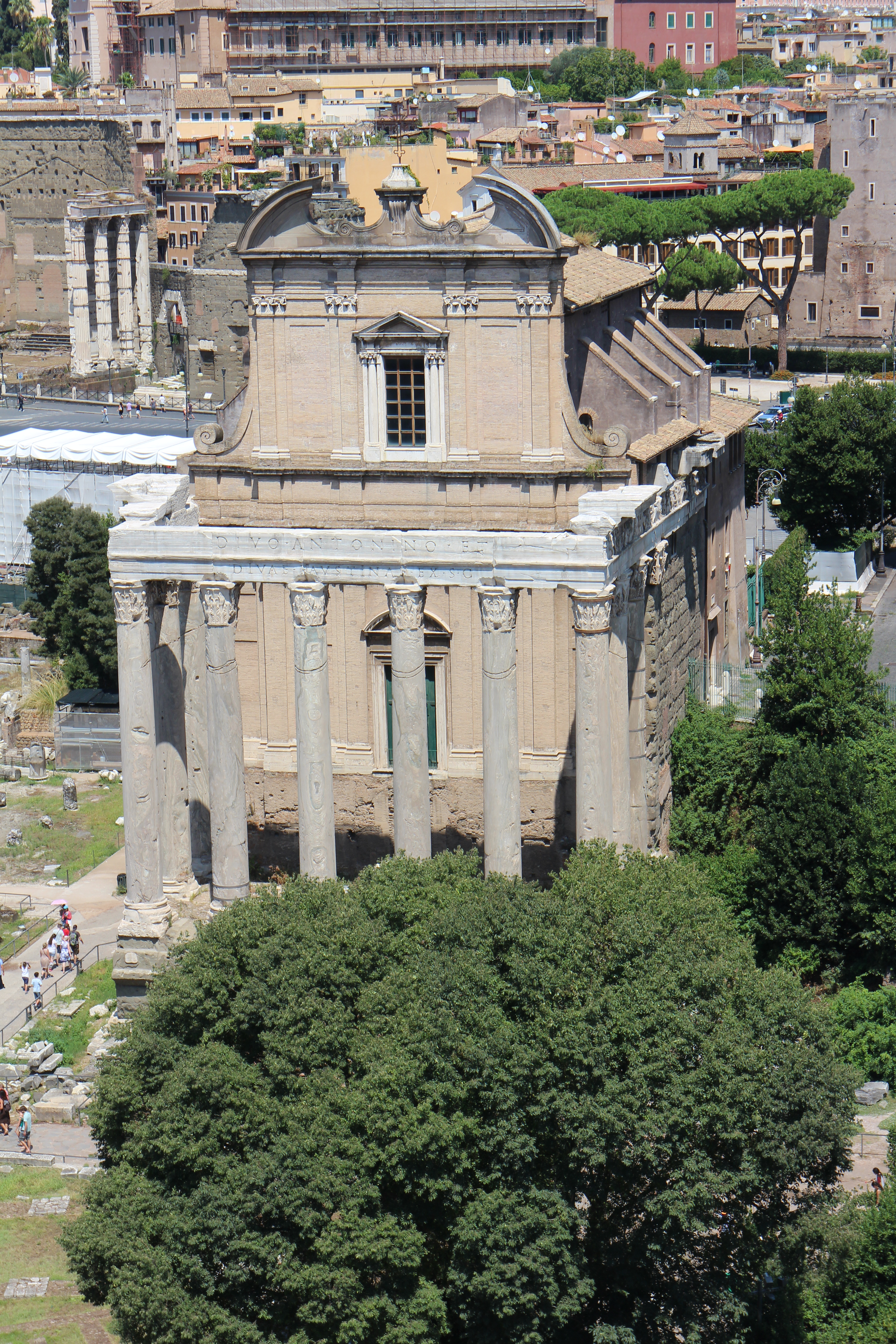 Temple of Antoninus and Faustina (Rome)